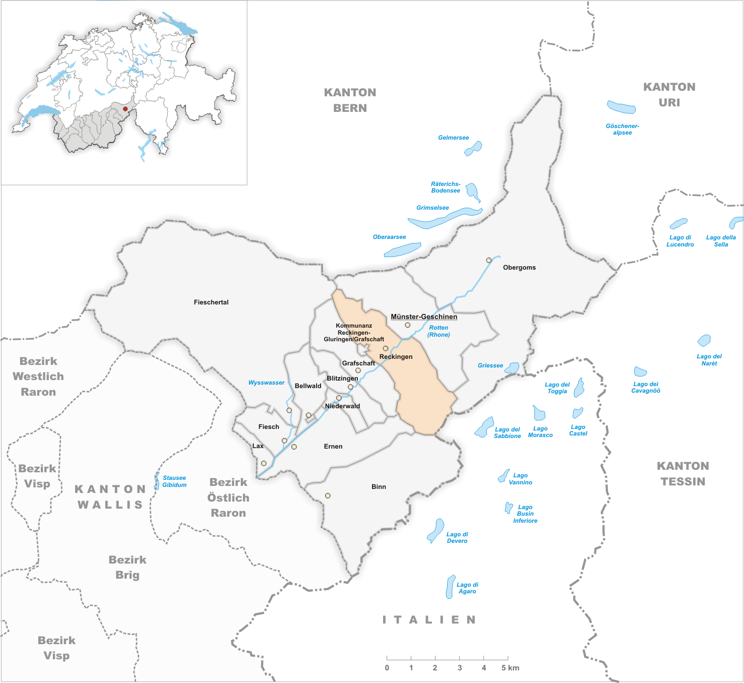 Municipality Reckingen-Gluringen